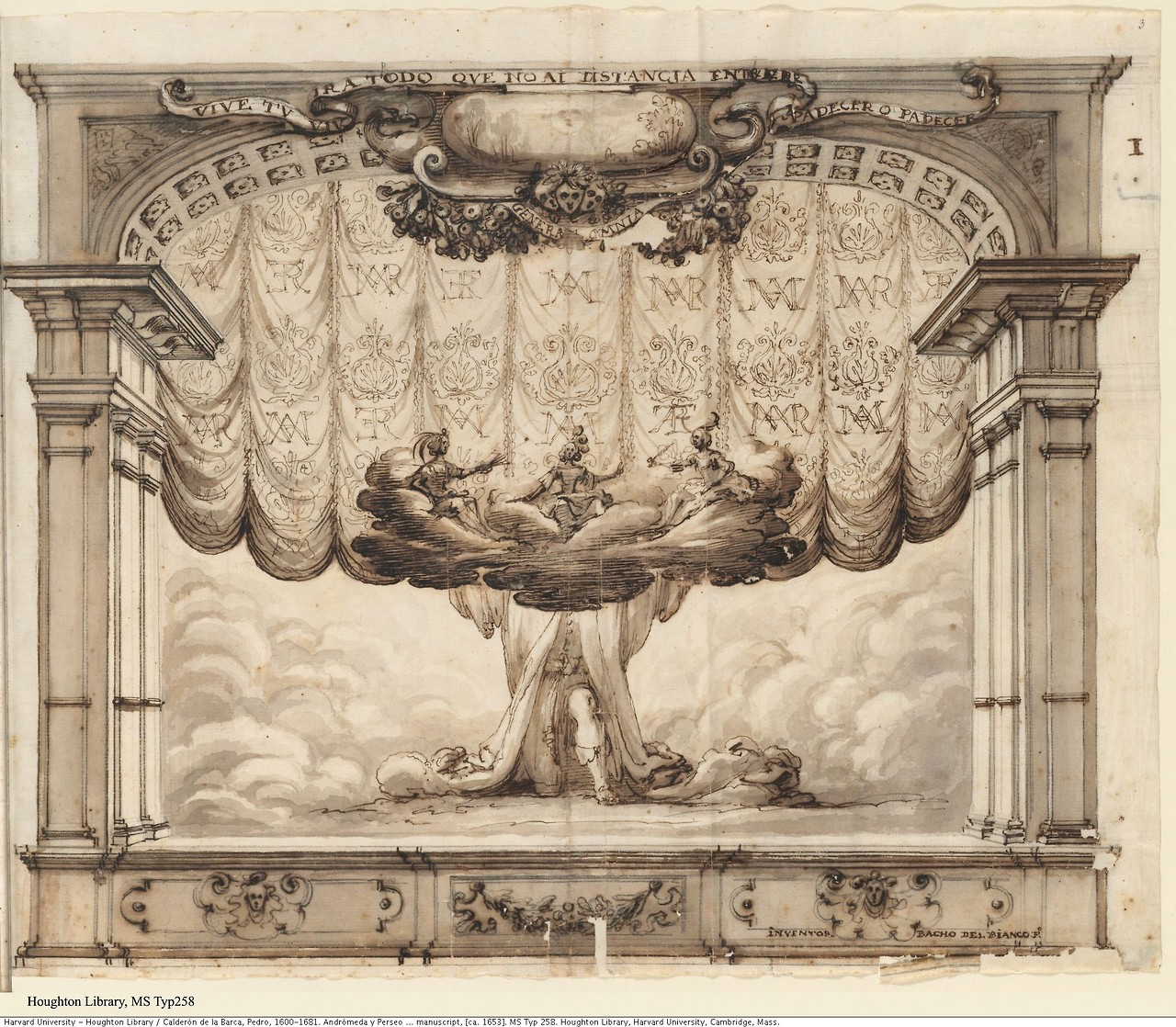 Ilustración para Andrómeda y Perseo de Pedro Calderón de la Barca; fábula representada en el Coliseo del Real Palacio de Buen Retiro. Abajo a la derecha puede leerse: Baccio del Bianco. Houghton Library de la Universidad de Harvard.